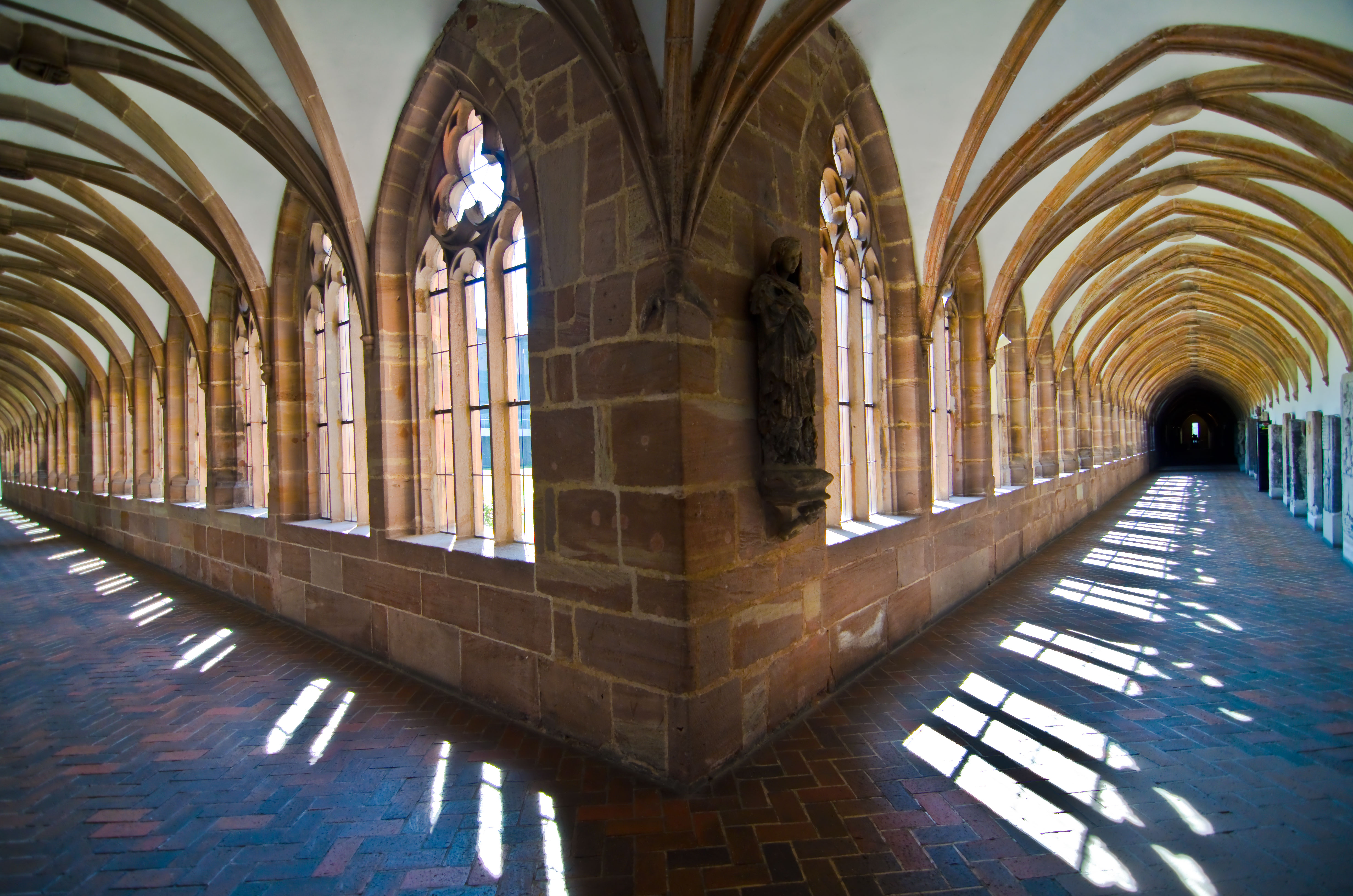 Cloisters of the former Carthusian monestary in Nuremberg. Today, the complex is part of the Germanisches Nationalmuseum.